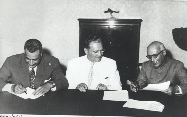 Jawaharlal Nehru at the Conference of Non-Aligned Nations held in Belgrade September 1961 with Nasser and Tito